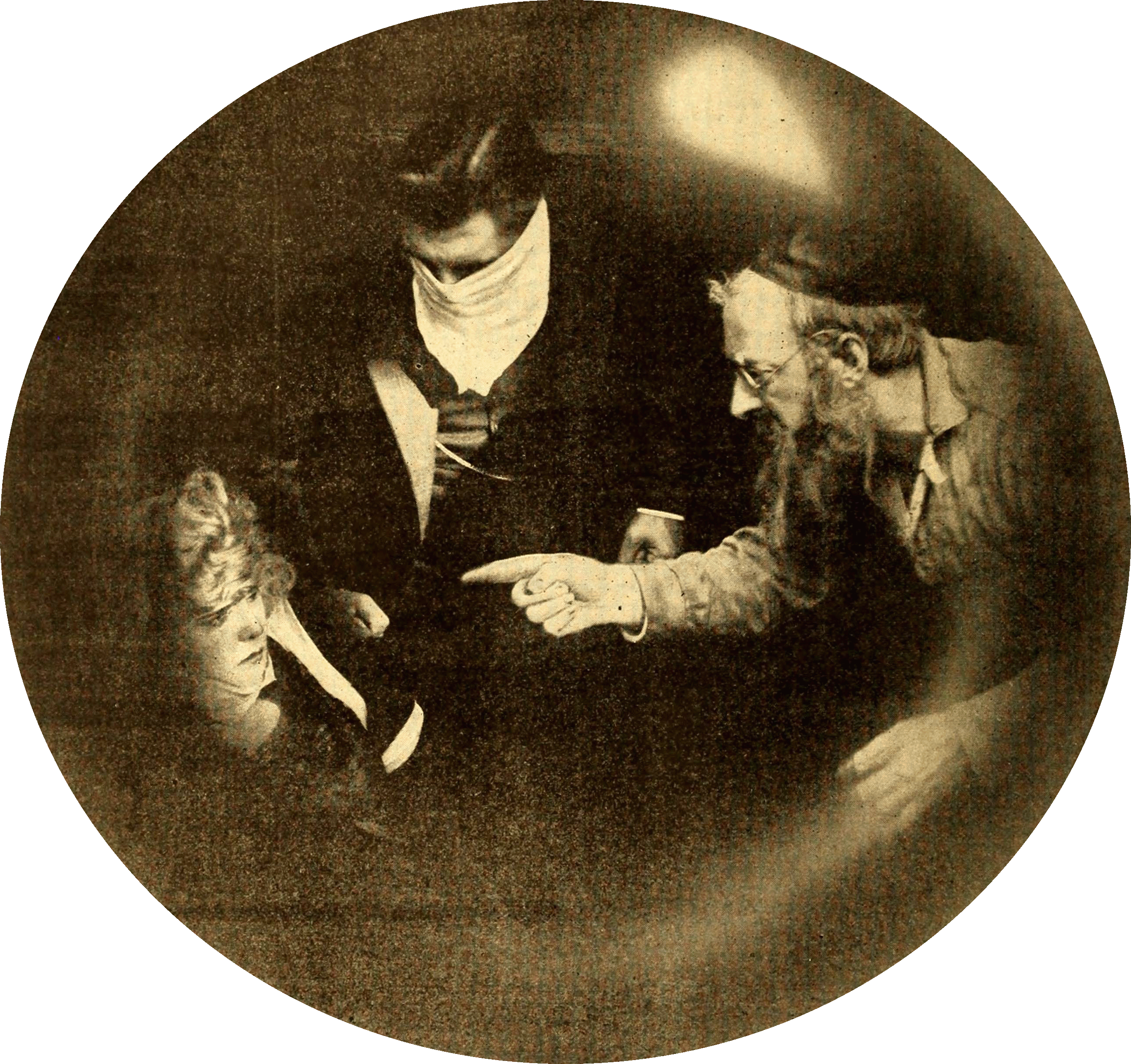 Advertisement in The Moving Picture World for the American film serial The Secret of the Submarine (1915).